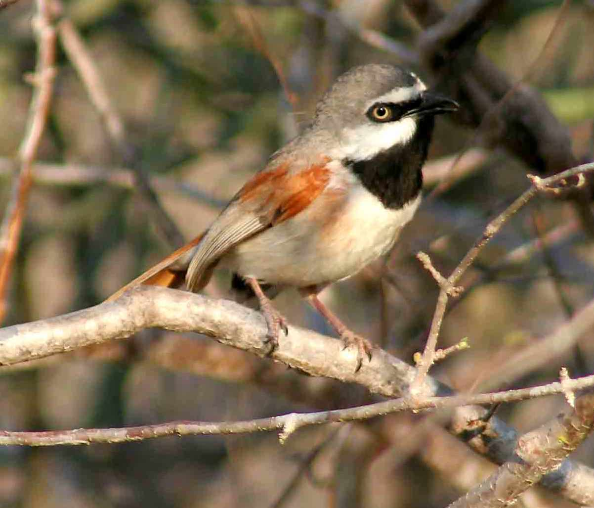 Red-shouldered vanga in Madagascar